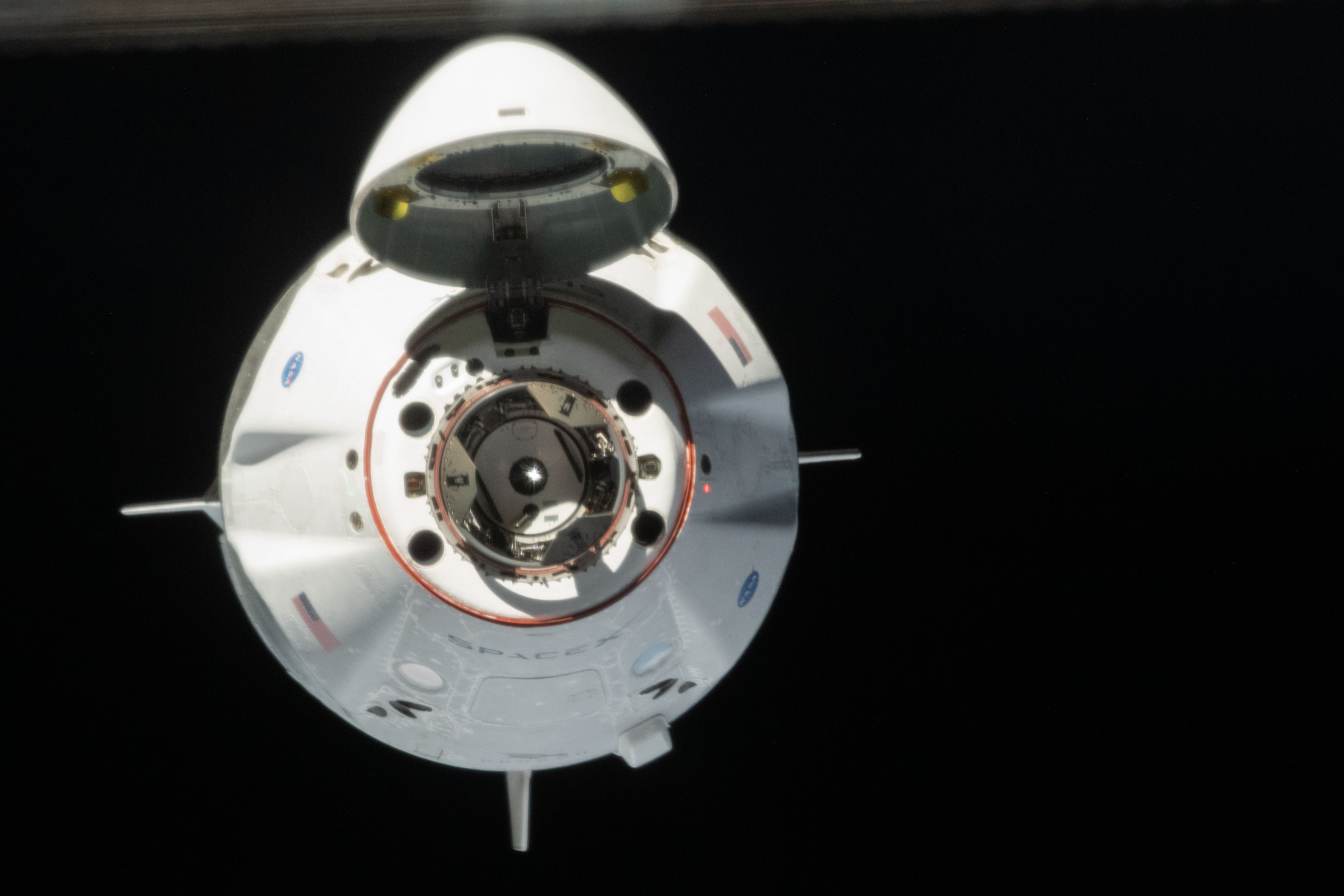 iss063e021563 (May 31, 2020) --- Astronauts Doug Hurley and Bob Behnken of NASA's Commercial Crew Program were aboard the SpaceX Crew Dragon as it approached the International Space Station. The Crew Dragon's nose cone is open revealing the spacecraft's docking mechanism that would connect to the Harmony module's forward International Docking Adapter.